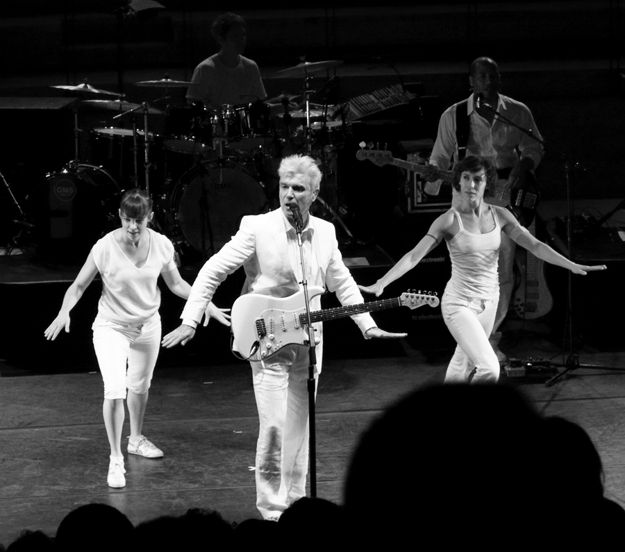 David Byrne Live in Milano, 2009